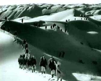 Exterior shot of French Foreign Legion marching through the desert from the 1930 film, Beau Ideal